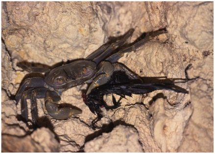 Geograpsus crinipes devouring swiftlet, Palau (photo courtesy of Mandy Etpison).